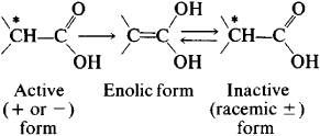 Racemization, chemistry